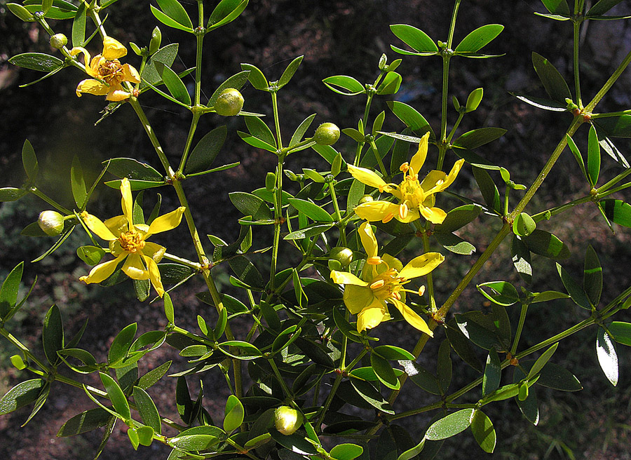 Common in Argentina, where it is known as Jarilla Embra. Some authorities treat this species as just a variety of L. tridentata, the North American creosote bush. In context at